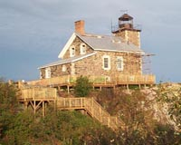 The Granite Island Light Station, Marquette County, Michigan, United States, is listed on the US National Register of Historic Places (NRHP).NRHP reference number 83000884